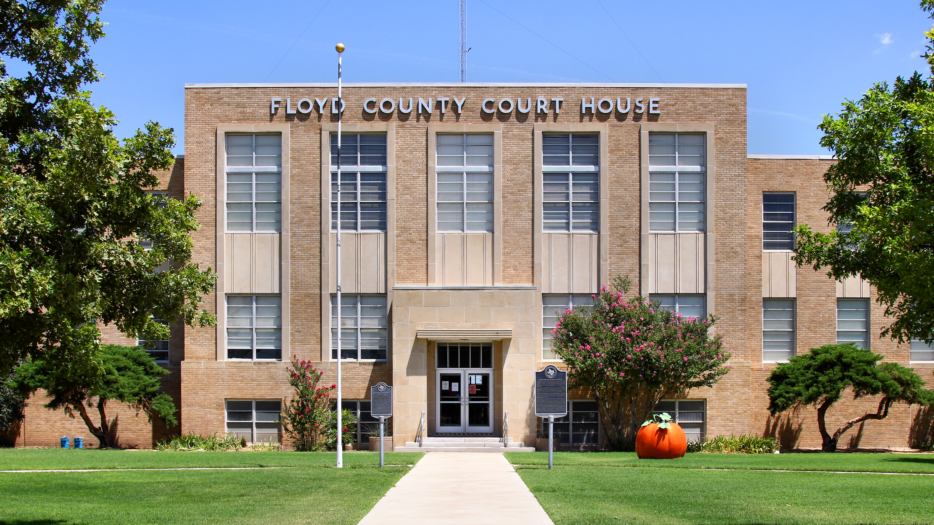 The Floyd County Courthouse in Floydata, Texas, United States was built in 1950. The designer was Marvin Stiles of Lubbock.